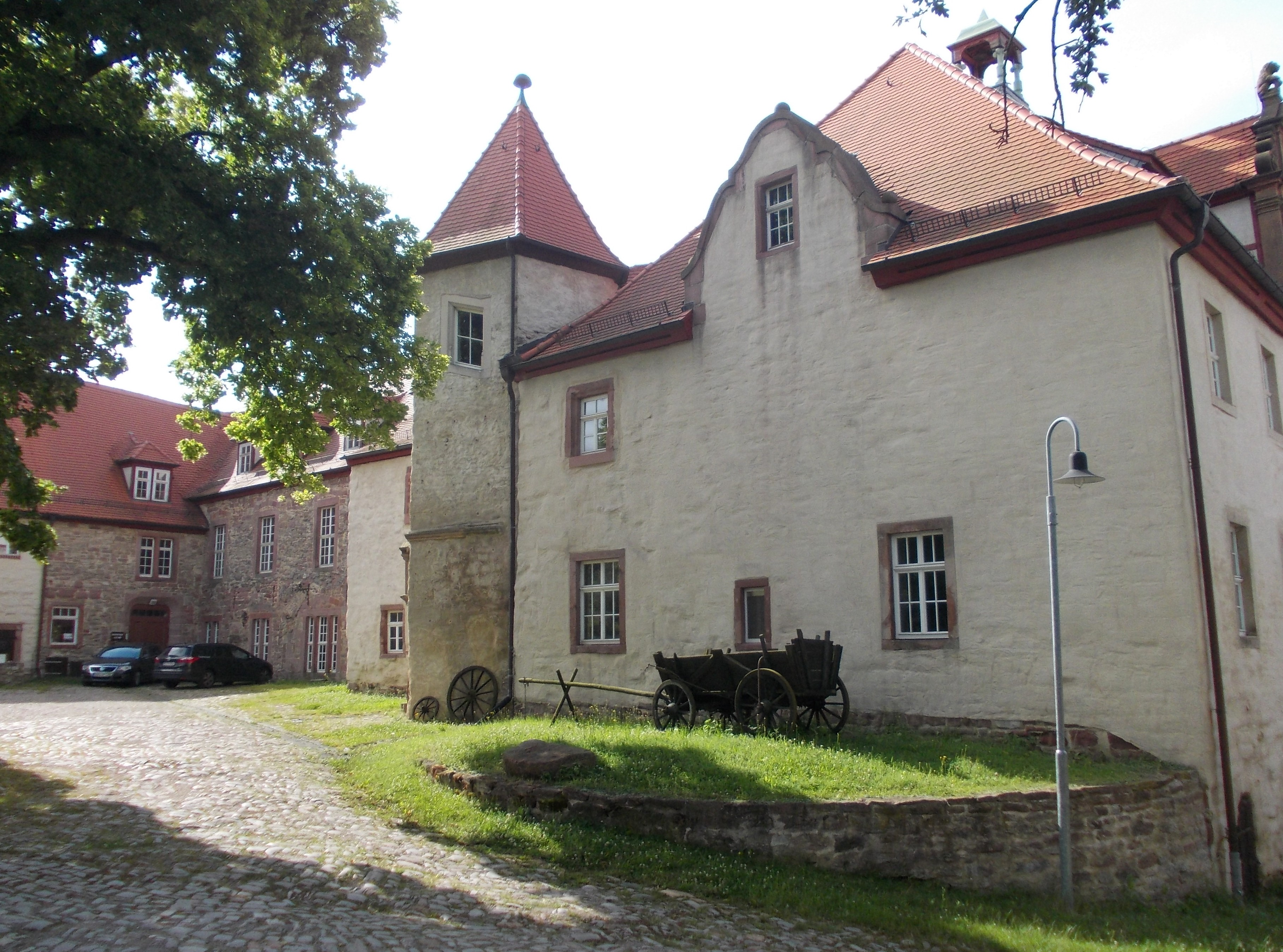 Klosterrode estate (Blankenheim, Mansfeld-Südharz district, Saxony-Anhalt)